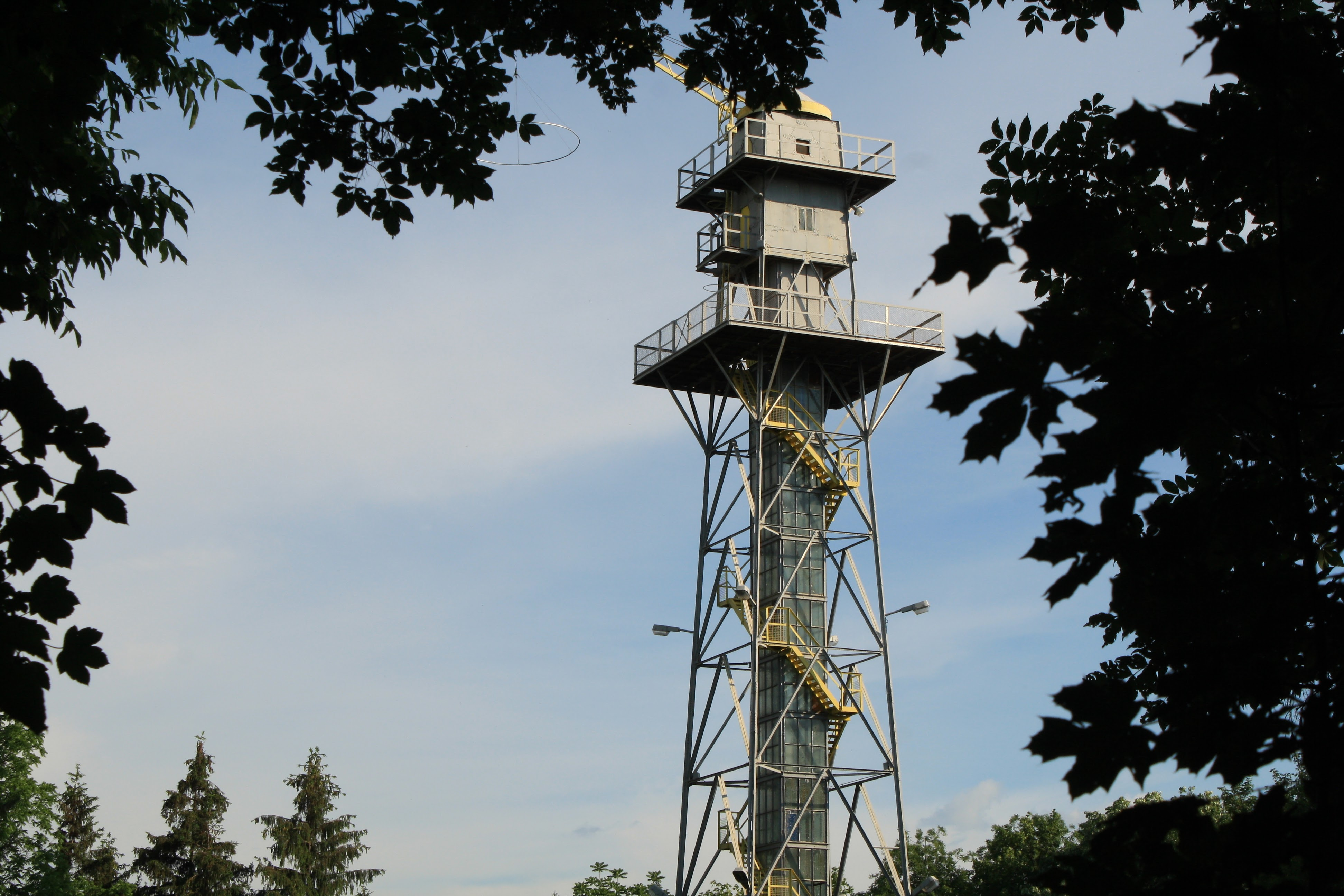 TurnTurnul de paraşutism din Iaşi (panoramic)